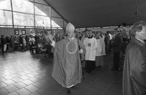 Local paper #22: Bishop